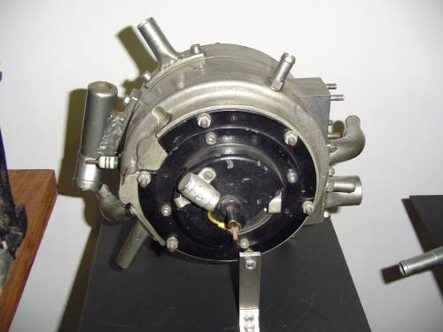 First KKM57 Wankel Rotary Engine